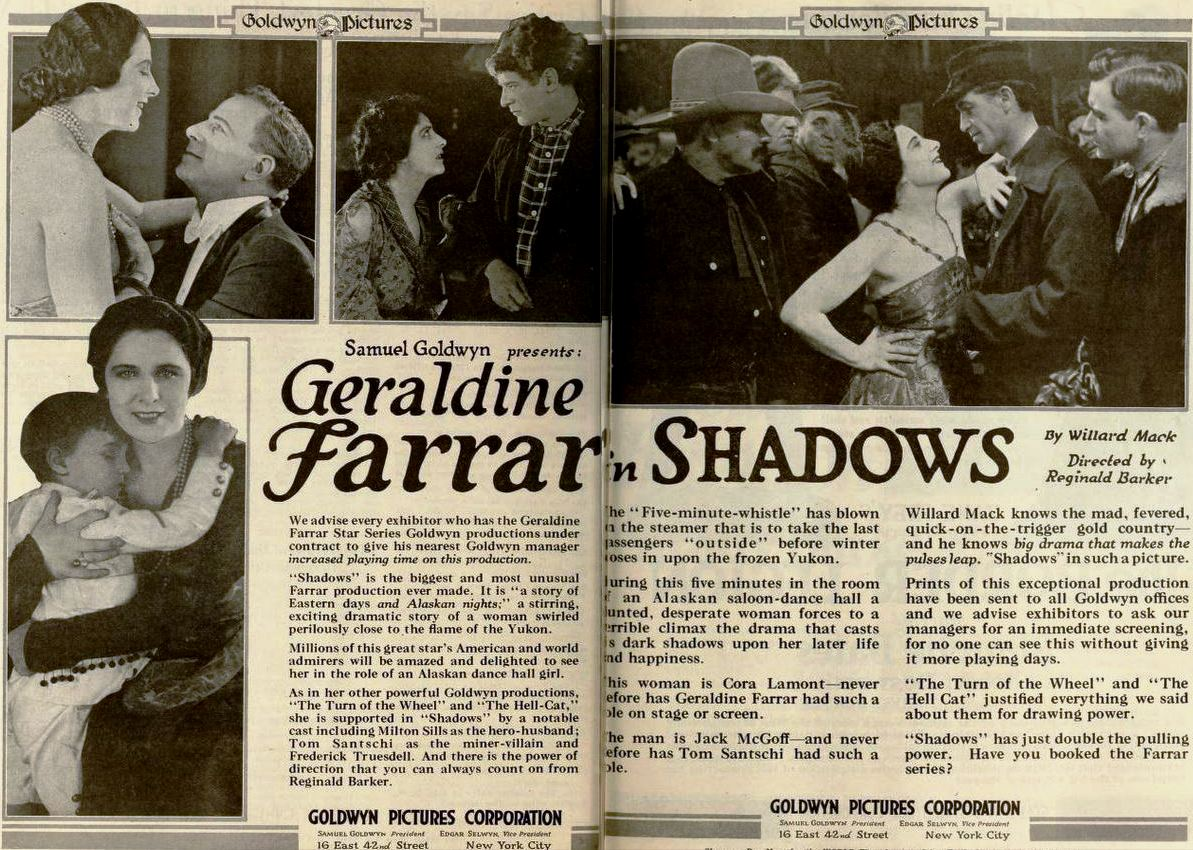 Ad for the American film Shadows (1919) with Geraldine Farrar, Milton Sills, and Tom Santschi, on pages 416 and 417 of the January 25, 1919 Moving Picture World.